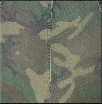 Sample of the original ERDL (M1948) camouflage pattern.